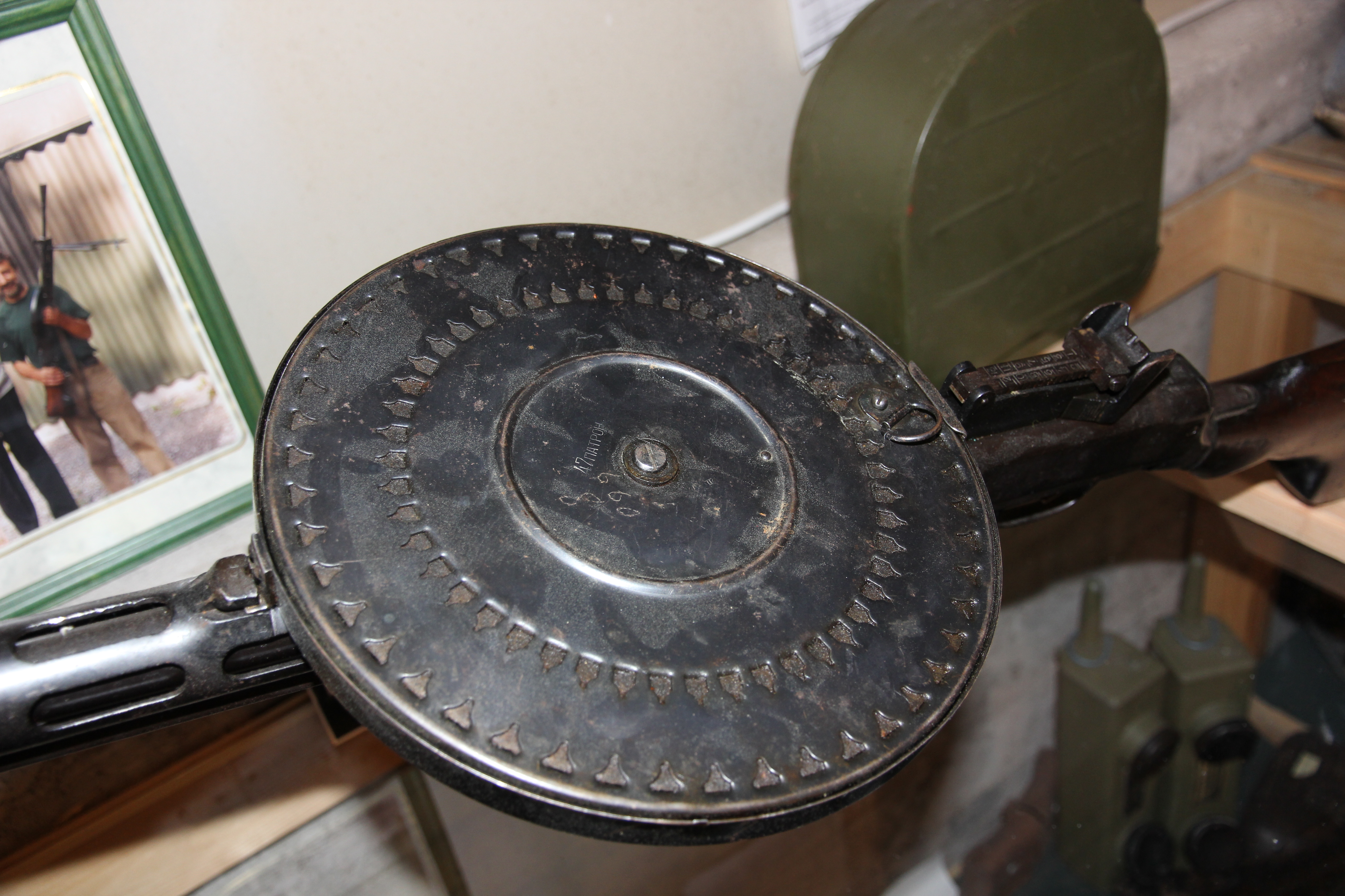 Pan magazine and rear sight of Degtyarev DP-27 light machine gun photographed in the Cannons of Torp museum.